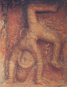 Talavilasitam karana in the Chidambaram temple (India